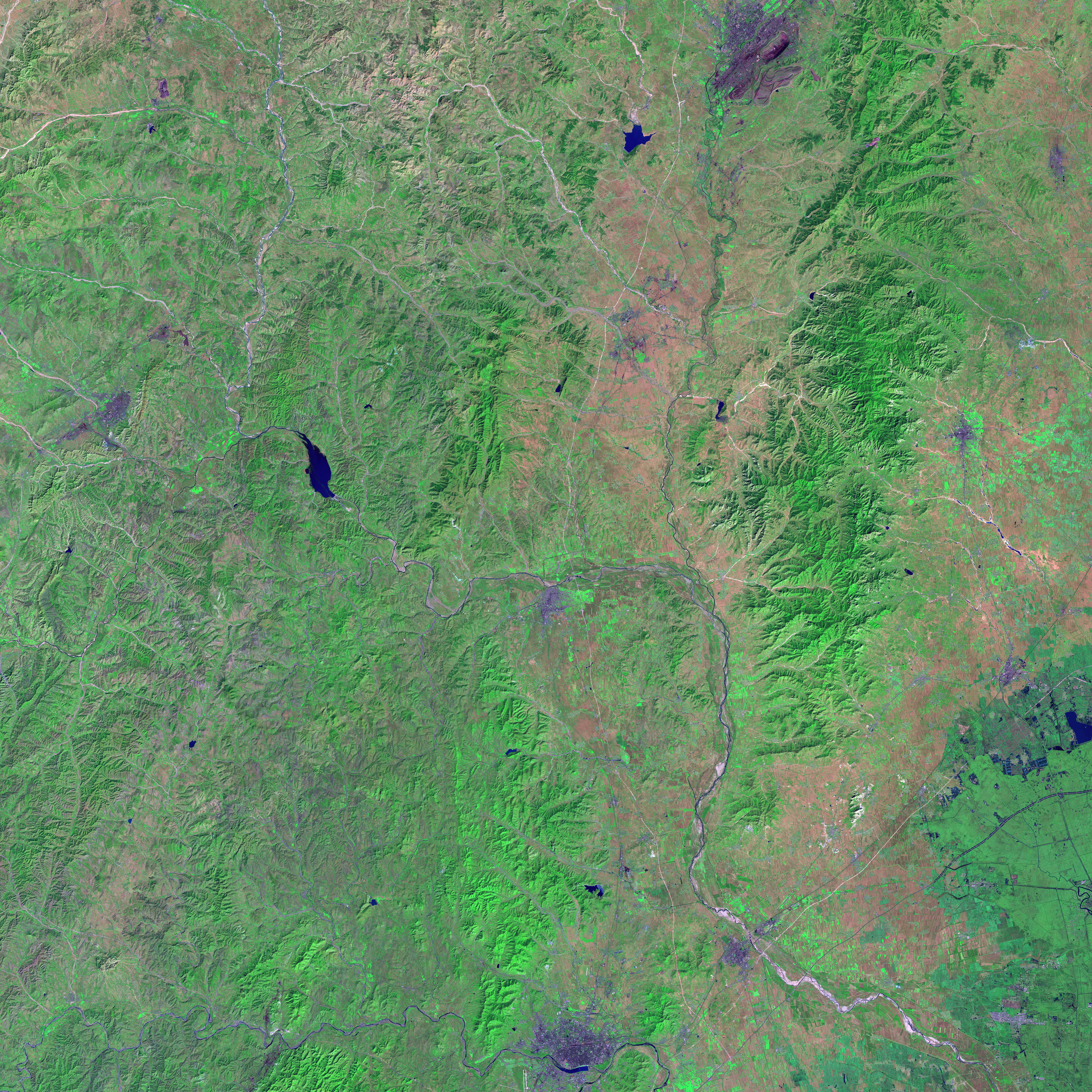 Landsat image of Liaoning province, China.